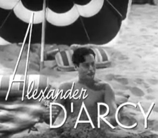 Cropped screenshot of Alexander D'Arcy from the trailer for the film Topper Takes a Trip